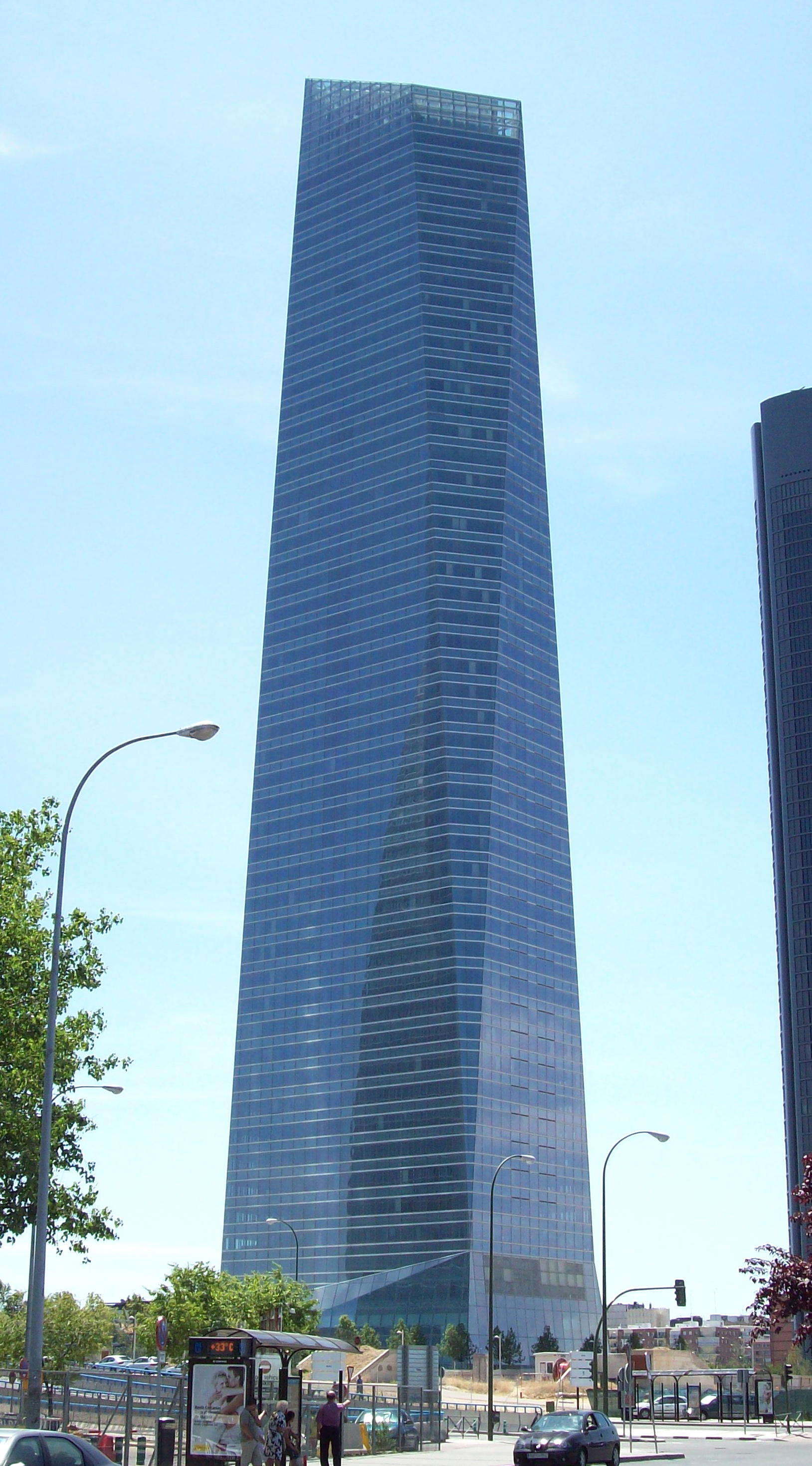 View of Torre de Cristal ("Crystal Tower") in Cuatro Torres Business Area (Madrid, Spain) from the north-west angle.